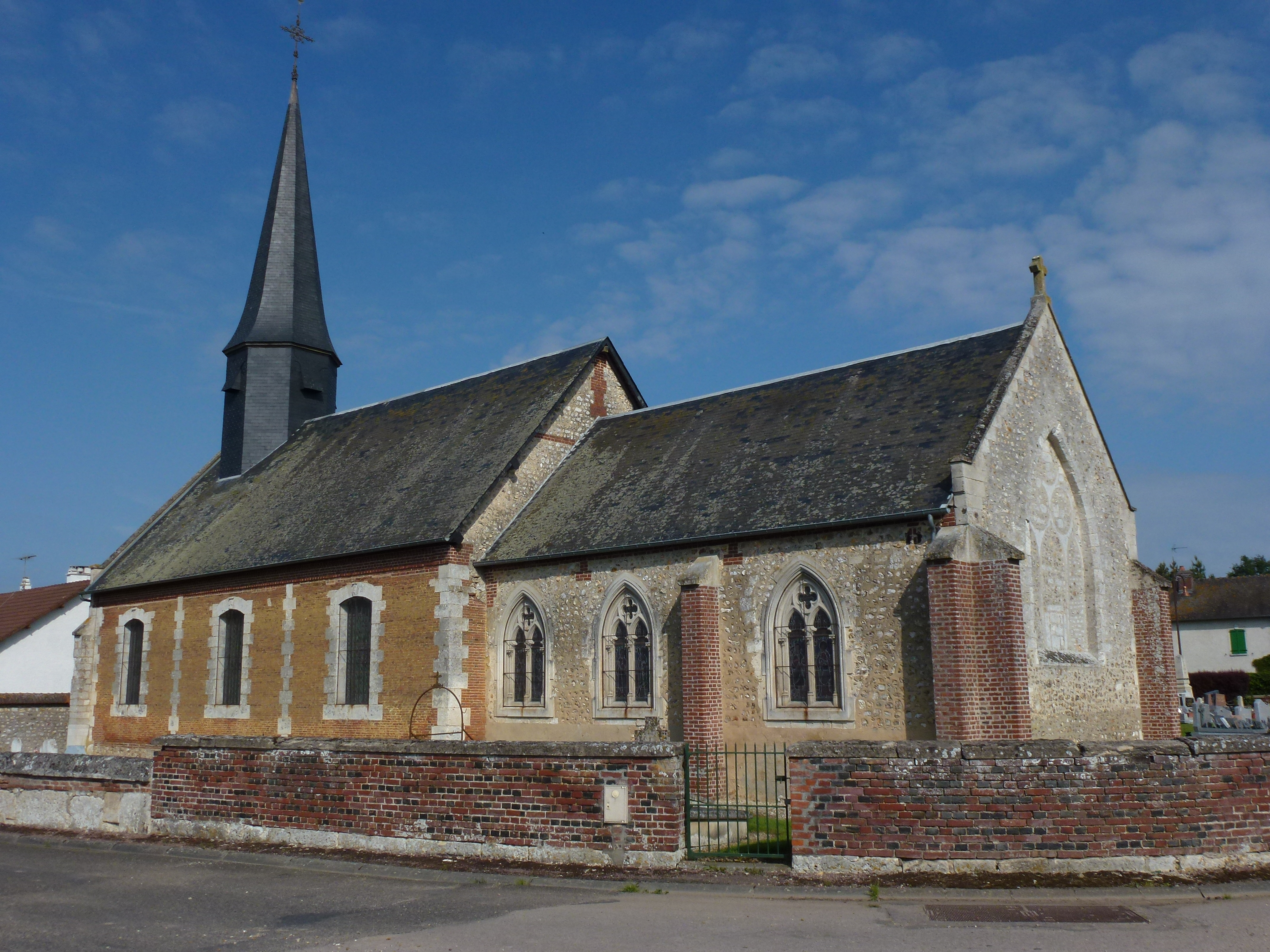 Malleville-sur-le-Bec (Eure, Fr) église Saint-Martin.